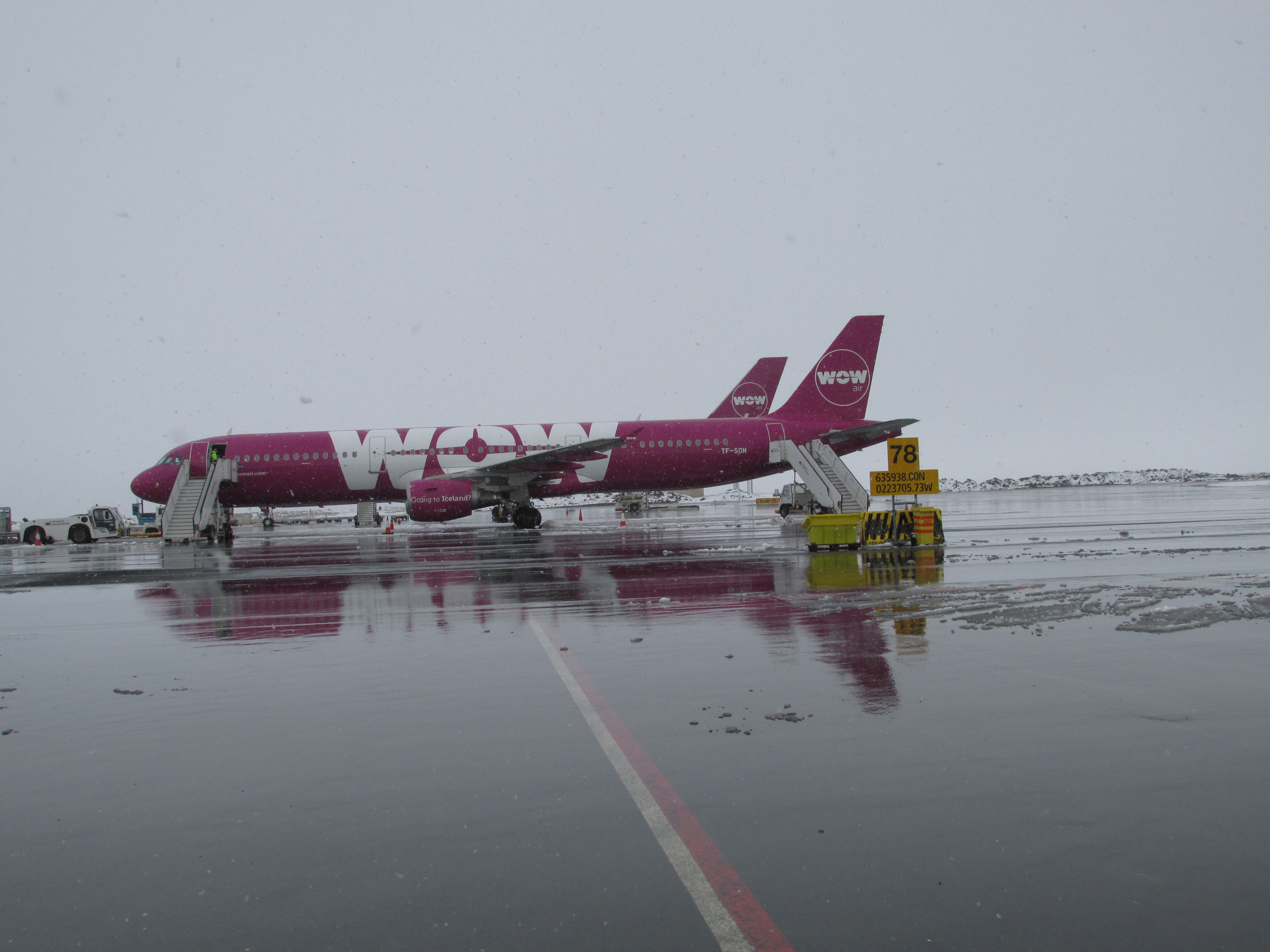 TF-SON aircraft in Iceland.